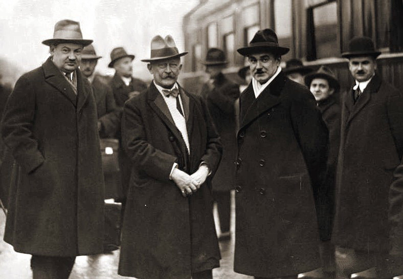 Tadeusz Hołówko, Polish politician and diplomat, Stanisław Patek, Polish envoy to Moscow and Dmitrij Bogomolov, Soviet envoy to Warsaw 1929